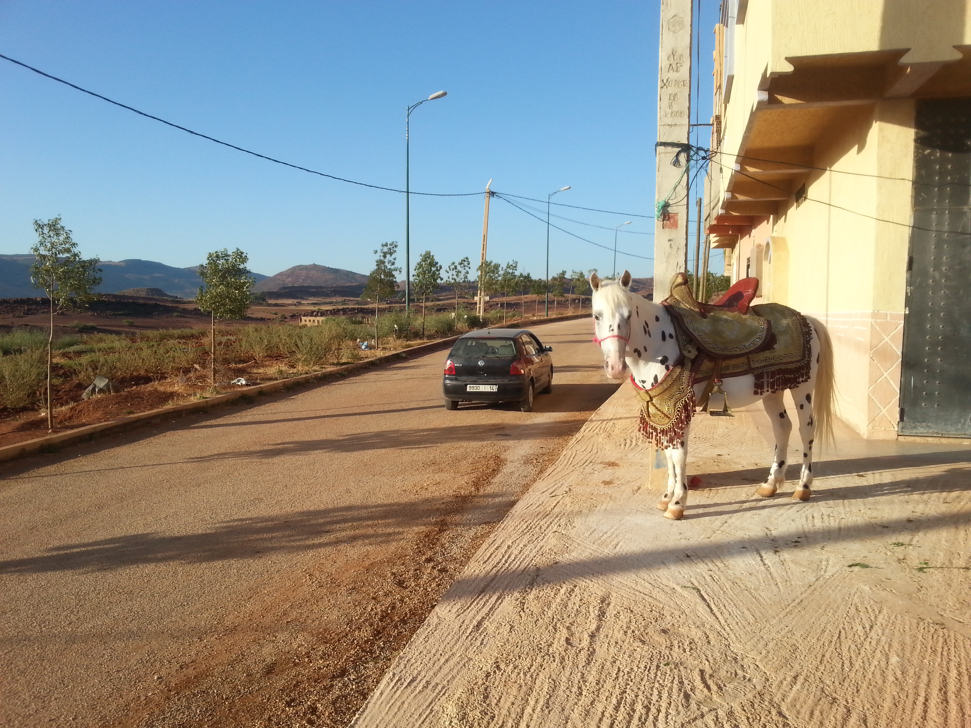 This is an image with the theme "Africa on the Move or Transport" from: Morocco